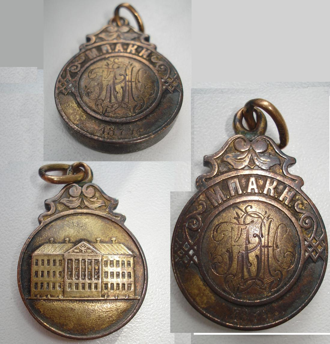 Эмблема Мануфактуры "Никонор Дербенёв и Сыновья": Аверс - вензель. Реверс - Московская практическая академия коммерческих наук. Сверху - тоже аверс, но наклонный, чтобы год было видно.